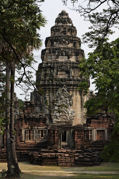 Prasat Hin Phimai, situated about 70 km north-east of the modern city of Korat (Nakhon Ratchasima).